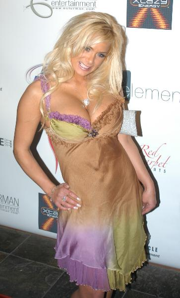 March 10, 2007: Ron Jeremy's Birthday Party A Mob Scene In Hollywood Saturday Night